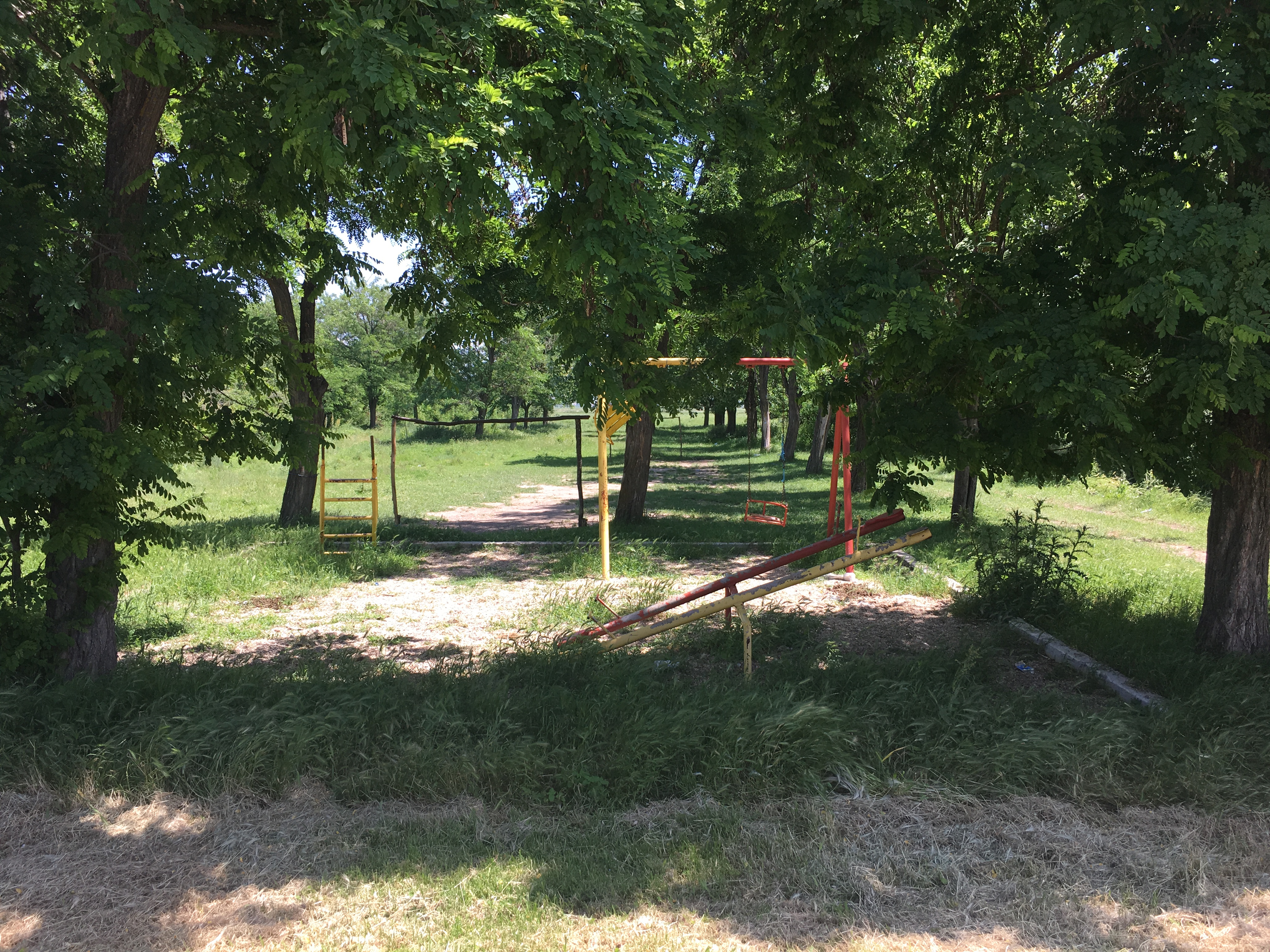 A park in the village of Radobor